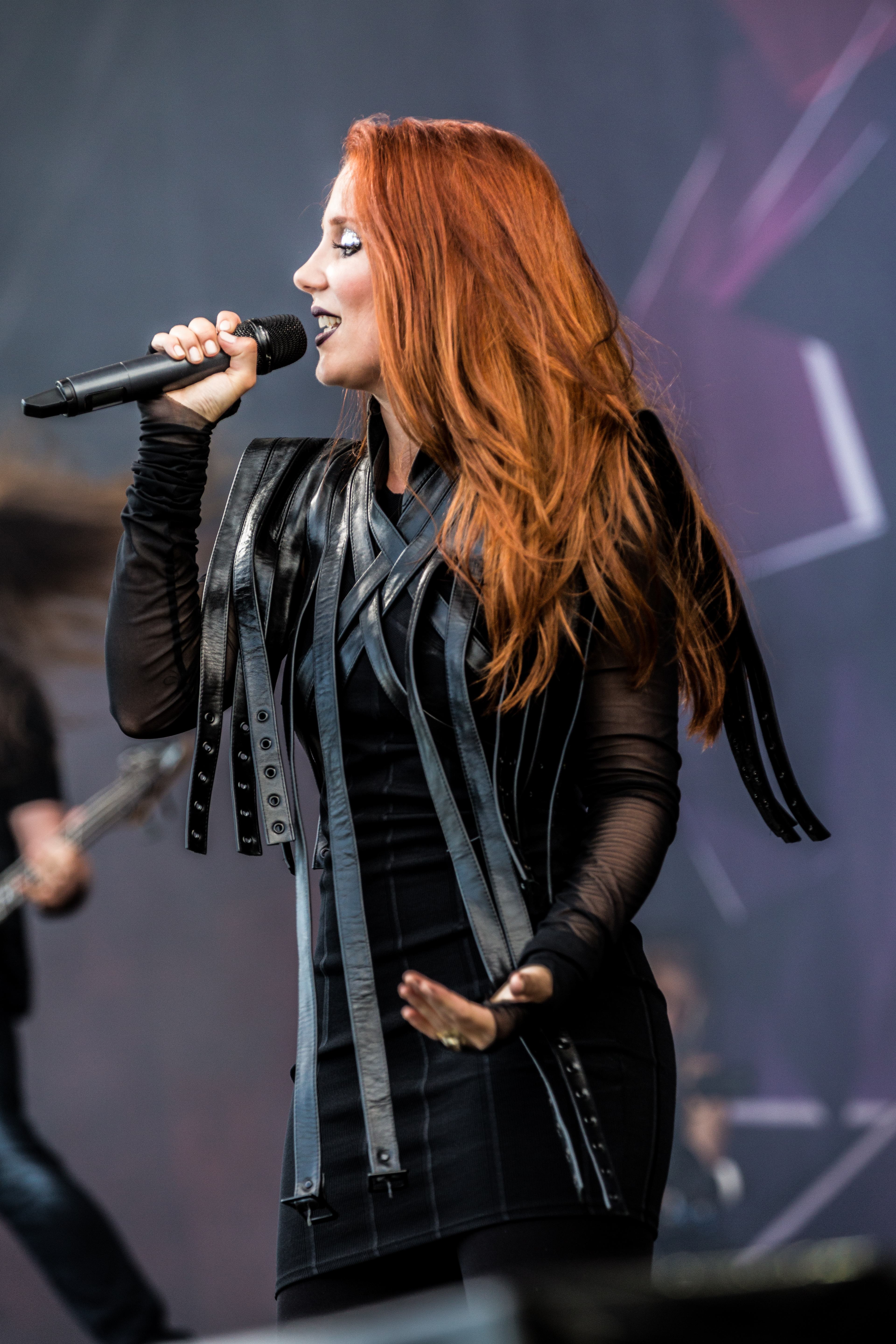 The Dutch symphonic metal band Epica at the Summer Breeze Open Air 2017 in Dinkelsbühl/Germany.